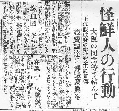 Kobe-Yushin Nippo (July 28, 1924)